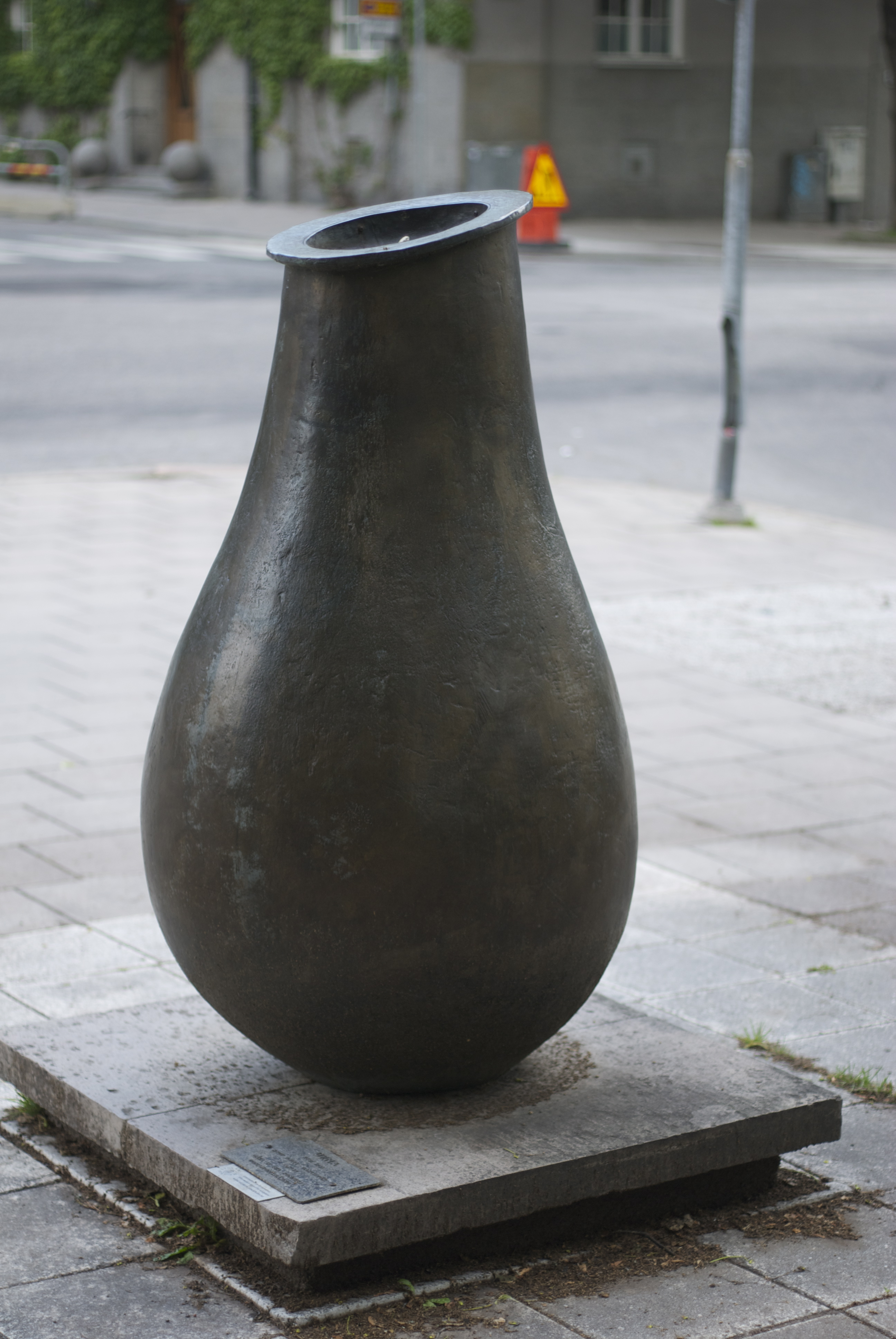 Urna, by Hedy Jolly-Dahlström